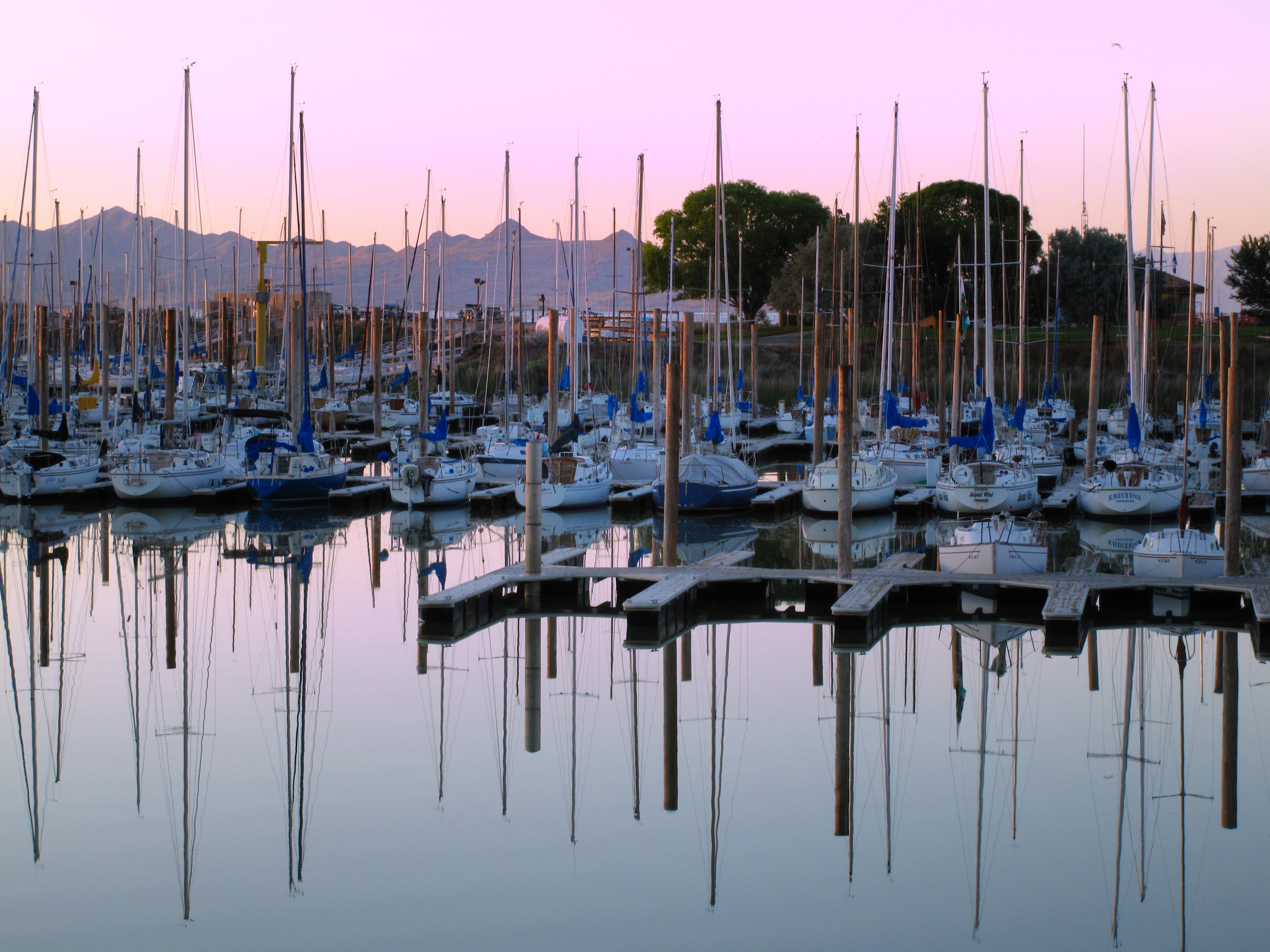 The Marina at the Great Salt Lake on a peaceful summer evening.